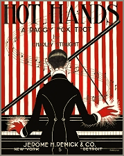 Hot Hands, 1916